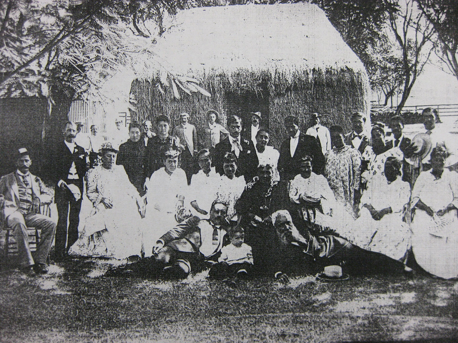 Liliuokalani at Waipiʻo, Oʻahu in 1891. Liliuokalani (center) and entourage at the home of Charles Augustus and Irene ʻĪʻī Brown, Waipiʻo, Oʻahu, 1891. David Kawānanakoa, Irene ʻĪʻī Brown, and Jonah Kūhiō Kalanianaʻole stand behind the Queen; Col. Sam Parker, Possibly dated to January 5, 1892, based on the journal entry of Queen Liliuokalani.